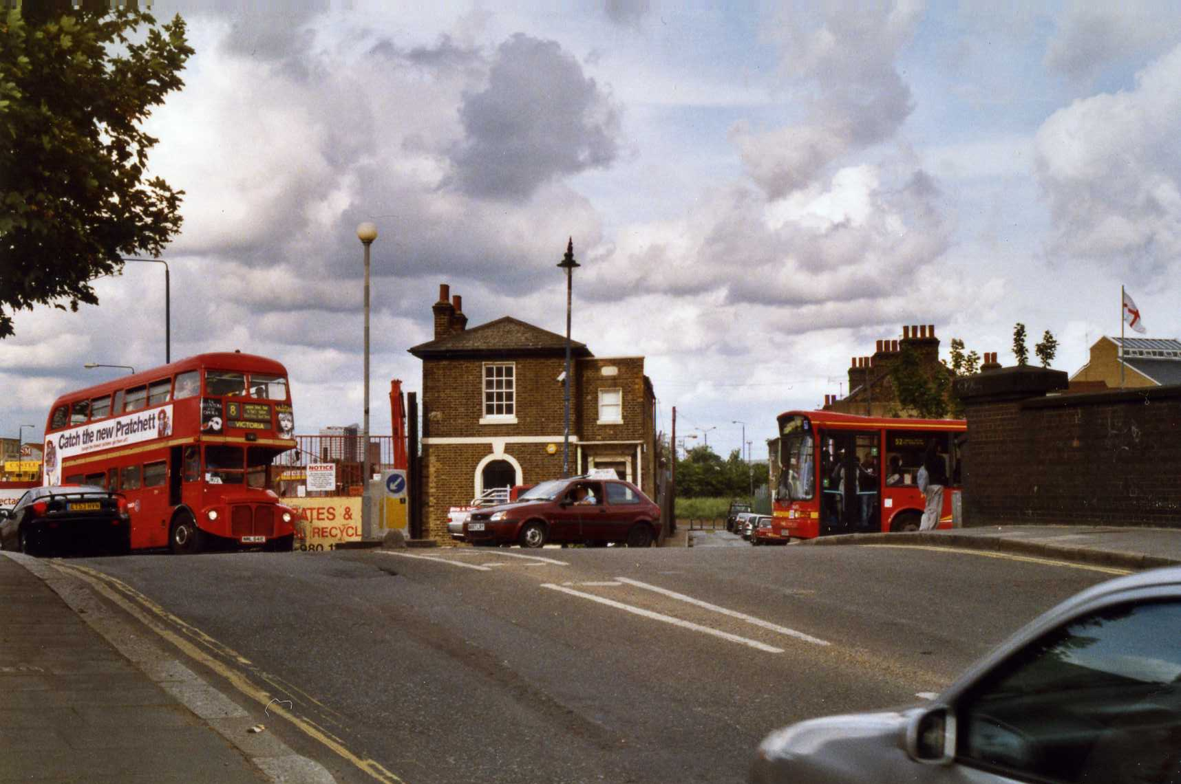 The bridge over the former North London Railway, closed c.1981, in Tredegar Road,Bow. The scrapyard of T Bates has since relocated to Fish Island but their office building will be incorated into future development on the site. An S2 service bus waits to pull out of Fairfield Road.(now renumbered the 488)